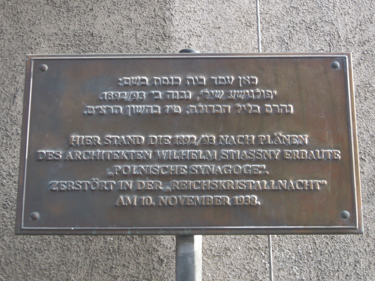 Memorial plaque at the modern building where the Polnische Schul used to stand. Vienna's II. district; Leopoldsgasse 29